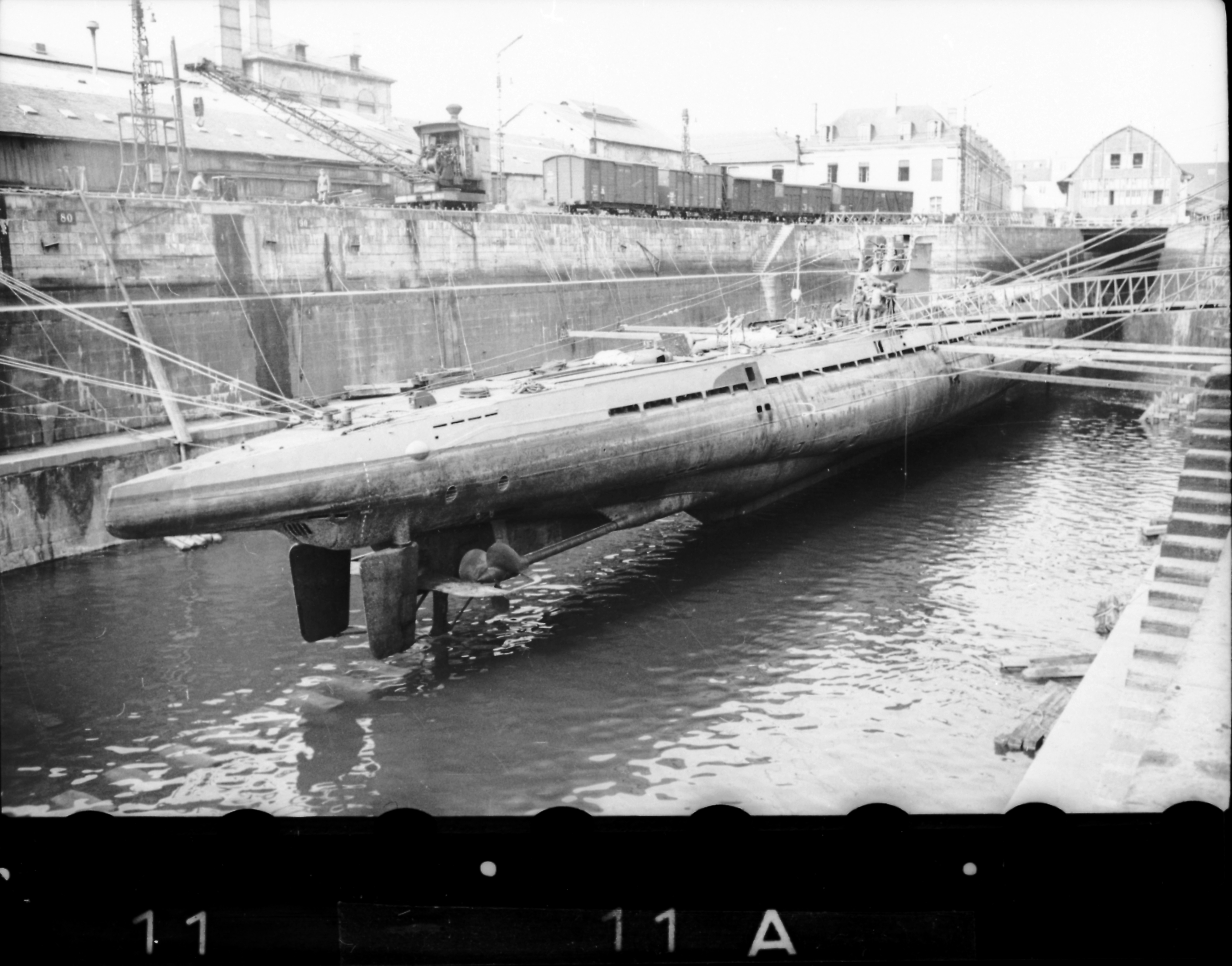 Information added by Wikimedia users.Unterseeboot U 37 im Dock in Lorient, Frankreich